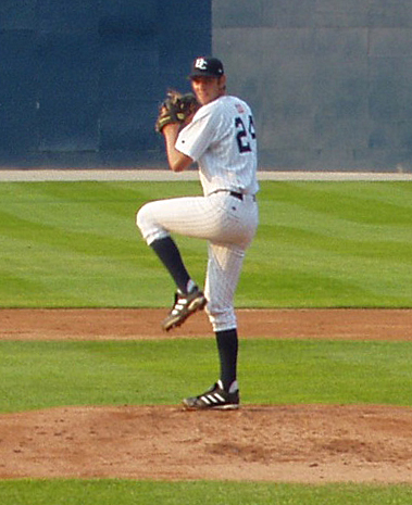 Baseball player T.J. Beam, pitching for the Battle Creek Yankees of the Midwest League. Cropped, rotated, and sharpened version of artist's original image, to focus on Beam.